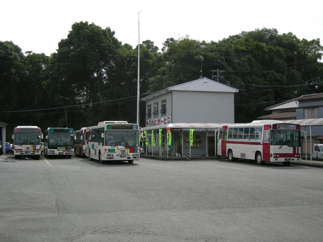 2009/09/19,Mori town, Shuchi county,Shizuoka prefecture